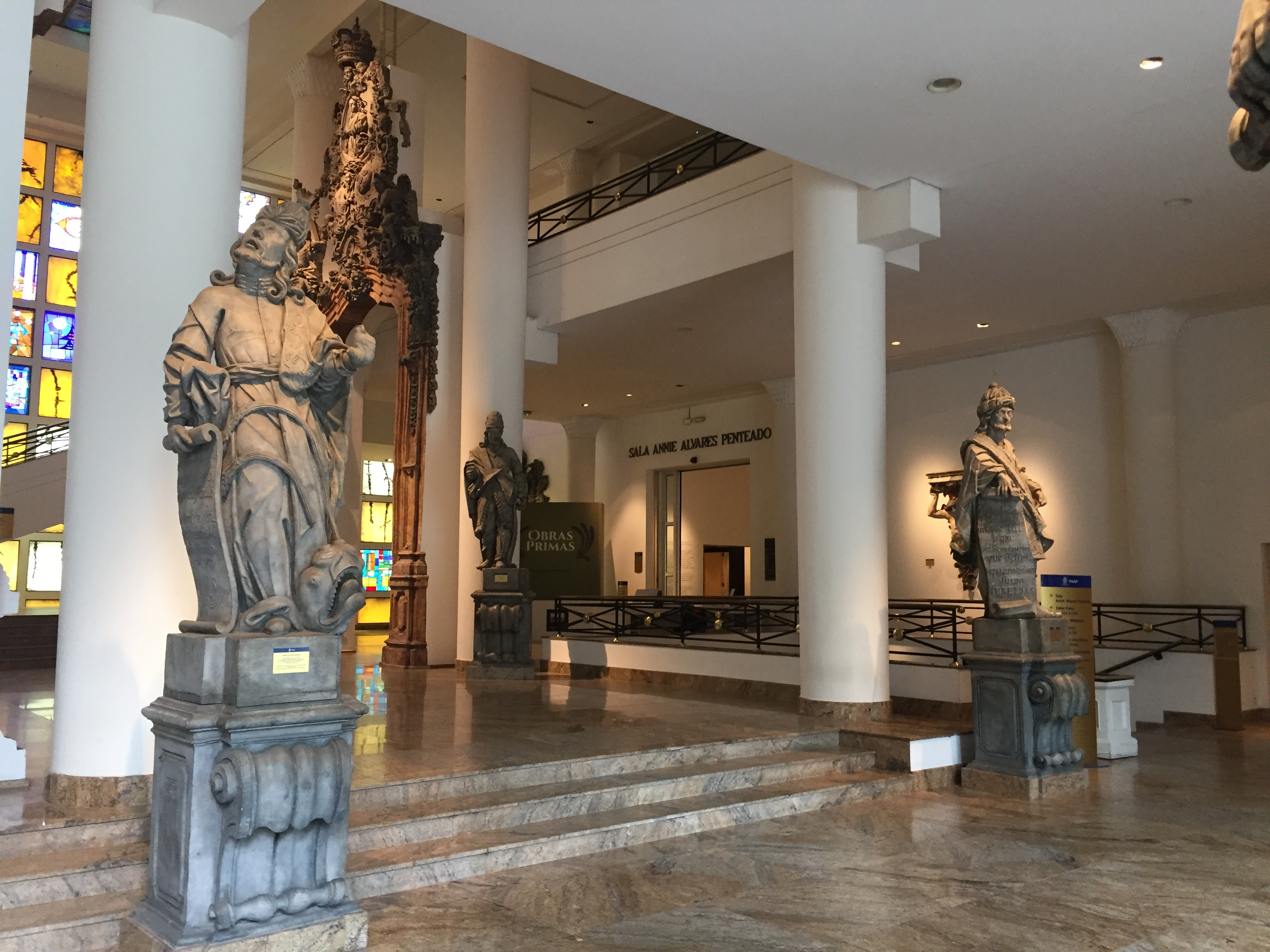 Foto interna do museu